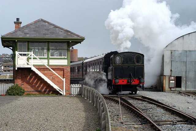 Former Comhlucht Suicre Eireann ("Irish Sugar Company") 0-4-0T steam locomotive no. 3 on the Downpatrick and County Down Railway leaving Downpatrick with a train for Inch Abbey